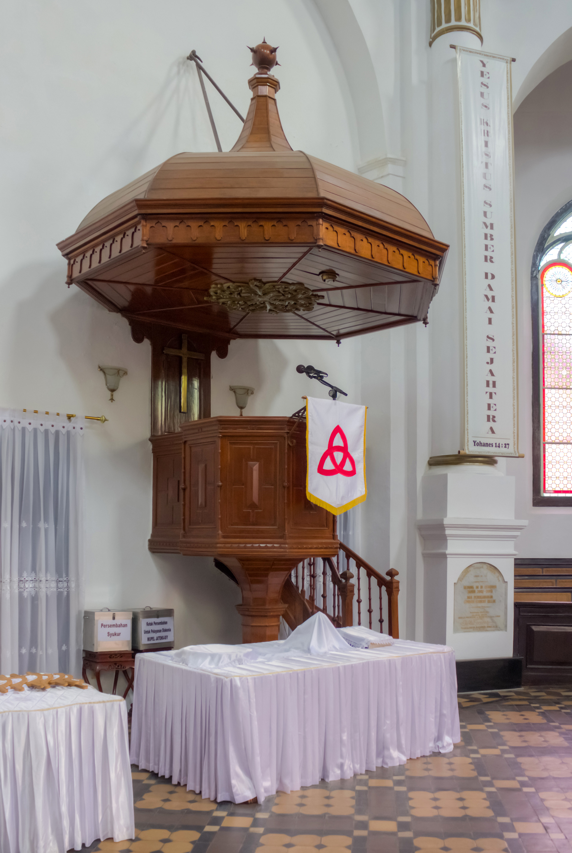 Pulpit of Blenduk Church, Semarang, 2014-06-18. HDR from 3 images.